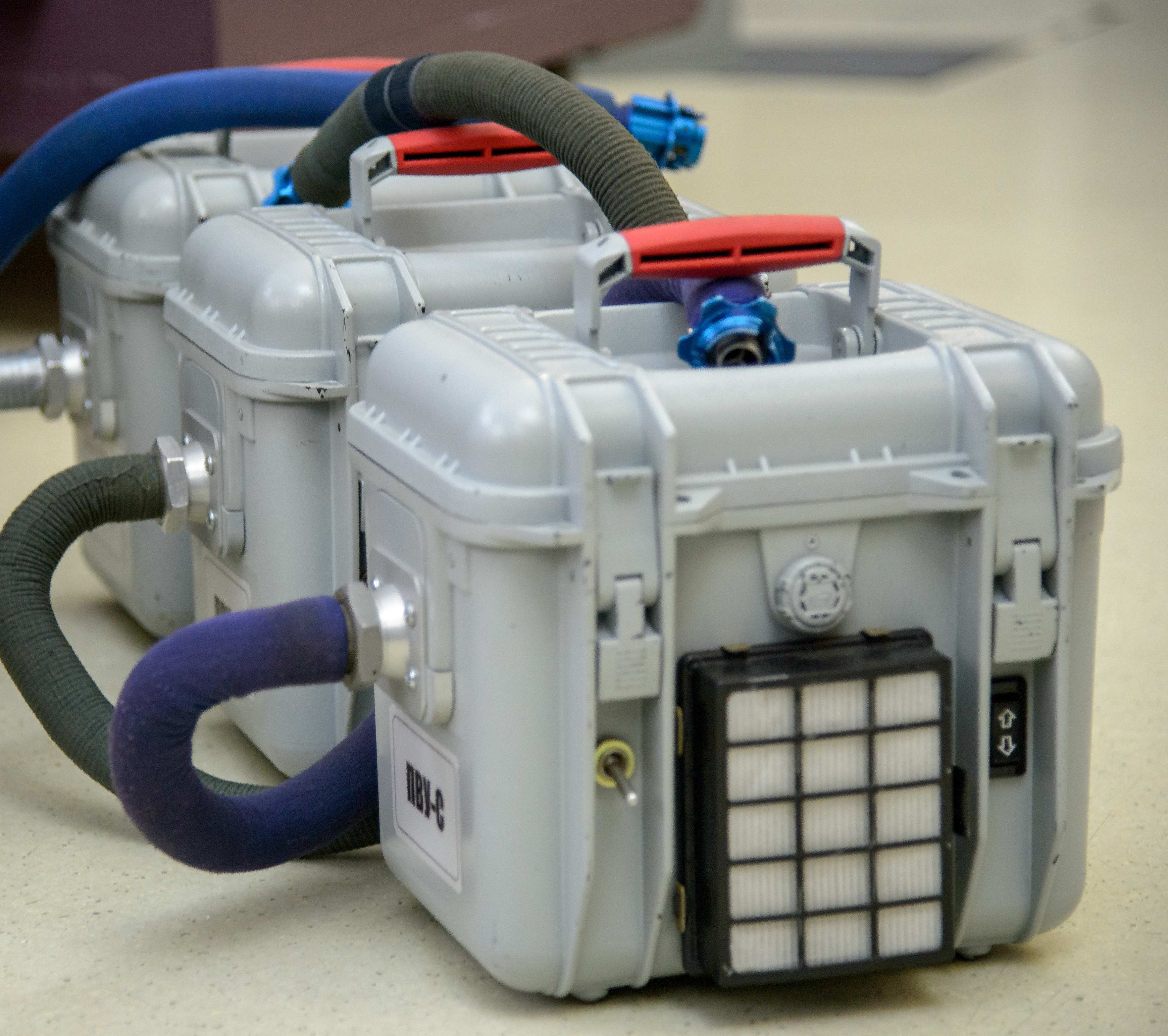 Russian Sokol suit cooling units await the Expedition 47 crew: NASA astronaut Jeff Williams, Russian cosmonauts Oleg Skripochka, and Alexei Ovchinin of Roscosmos on the crew's final day of Soyuz qualification exams, Thursday, Feb. 25, 2016, at the Gagarin Cosmonaut Training Center (GCTC) in Star City, Russia.